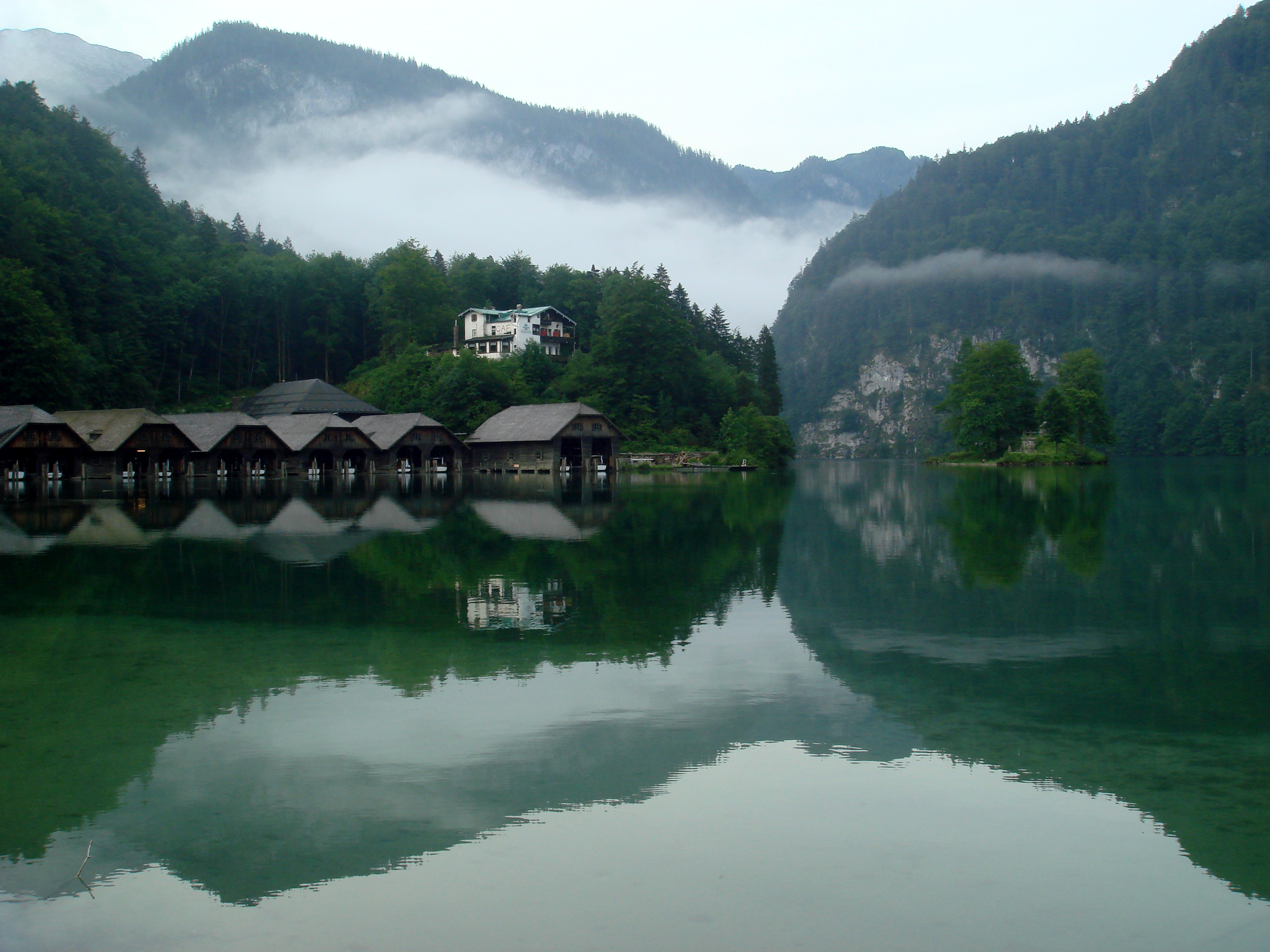 Königssee, Germany, from the harbor of Schönau am Königssee. Taken just before dusk, after all the boats (and their ripples that ruin the mirror-effect) have finished for the day.